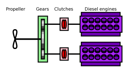 Diagram of a single shaft CODAD system. Note that a real CODAD system would have a different gearbox and clutch arrangement. (Own work) Combined diesel and diesel CODAD